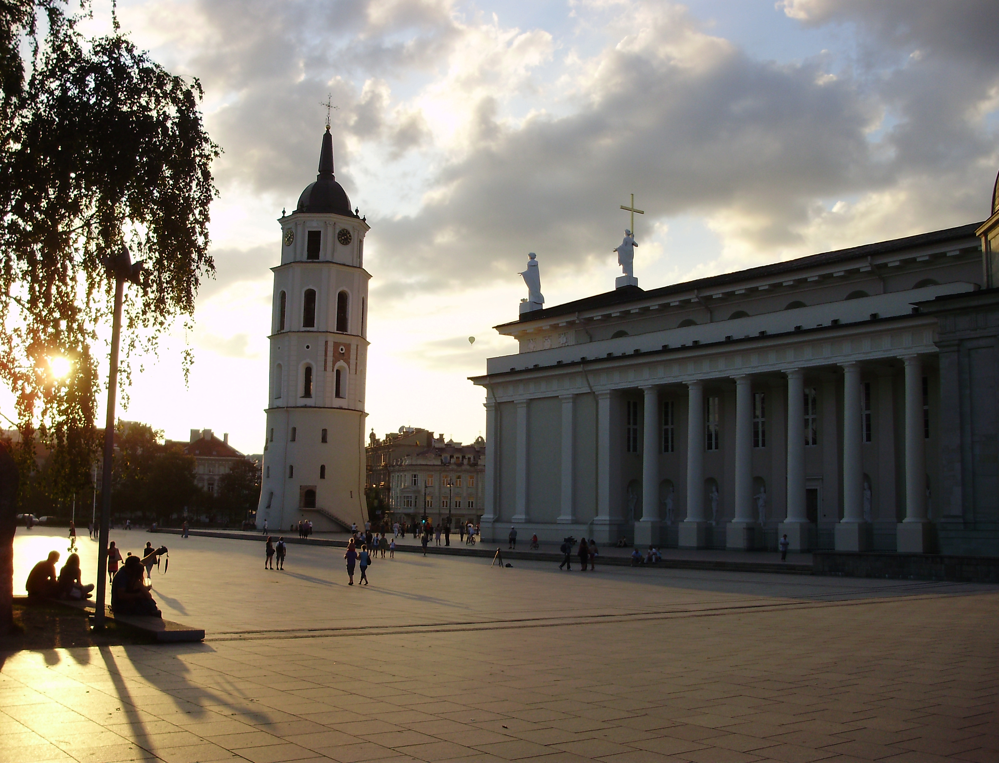 Gediminas's Bell Tower, Vilnius, by the light of a summer's evening (August 2011).